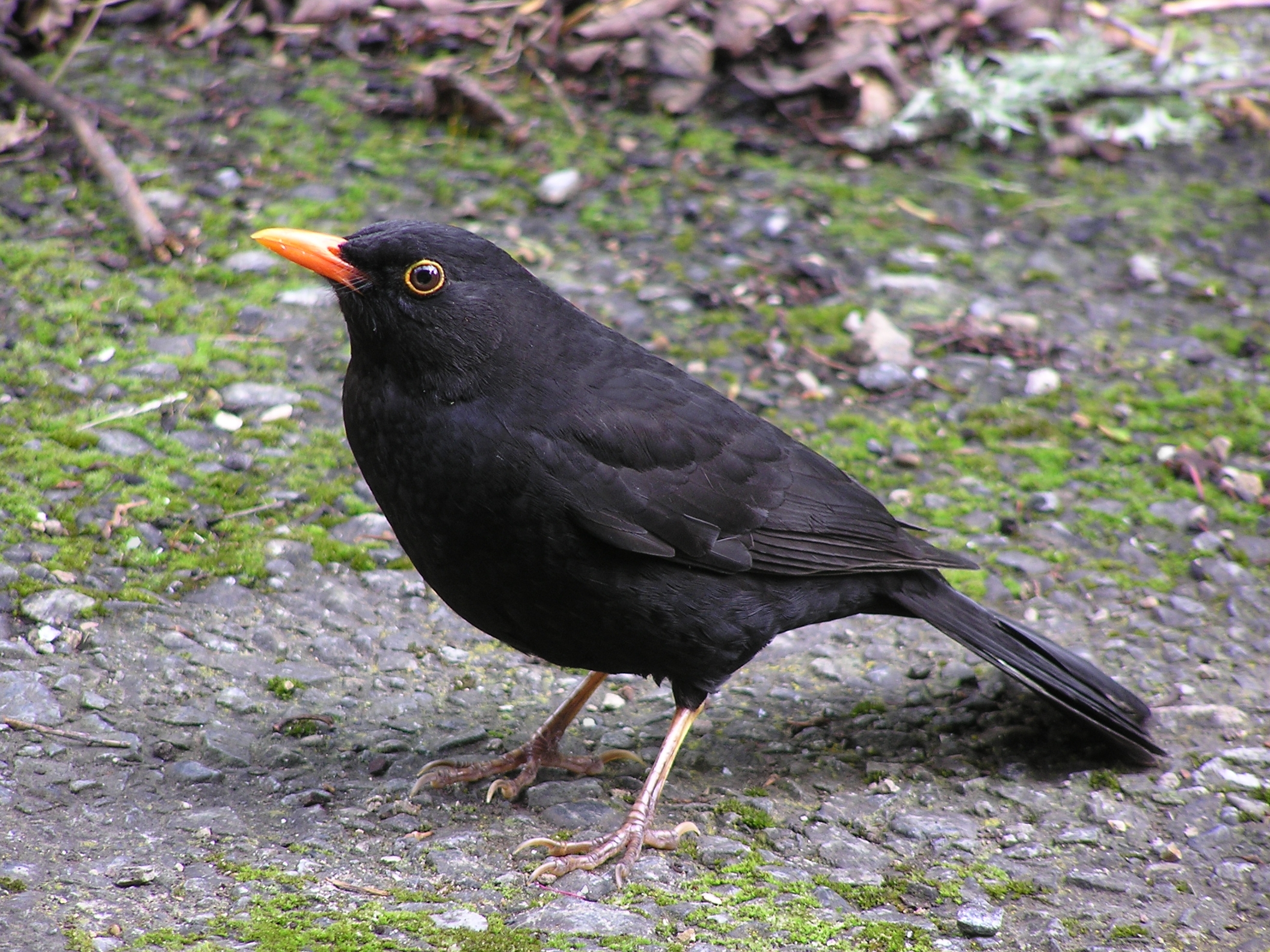 Male blackbird (Turdus merula), Wellington, New Zealand.